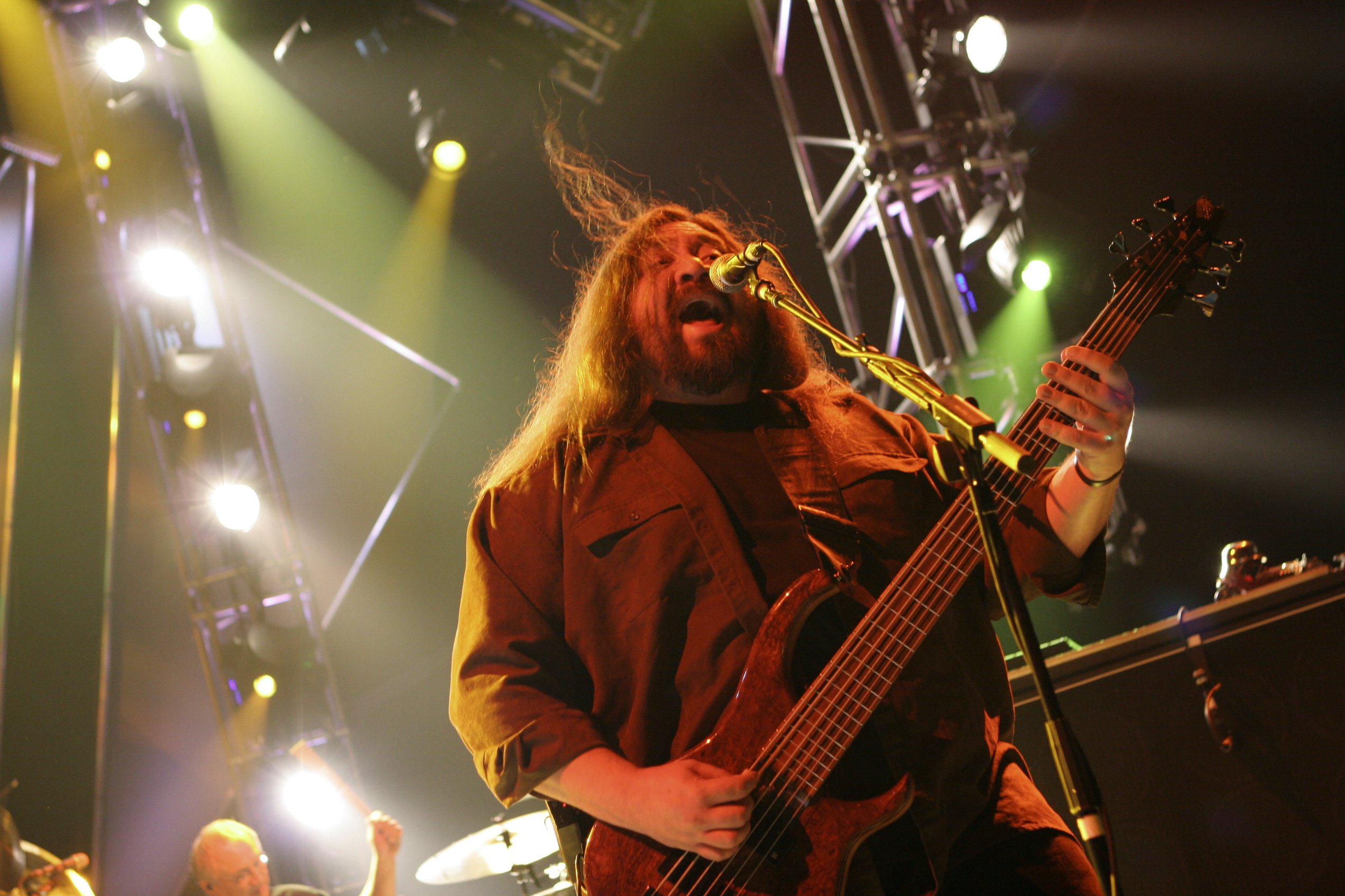 Stactic electricity causes Dave Schools' (Widespread Panic) hair to rise. So many electrical instruments and equipment on stage.